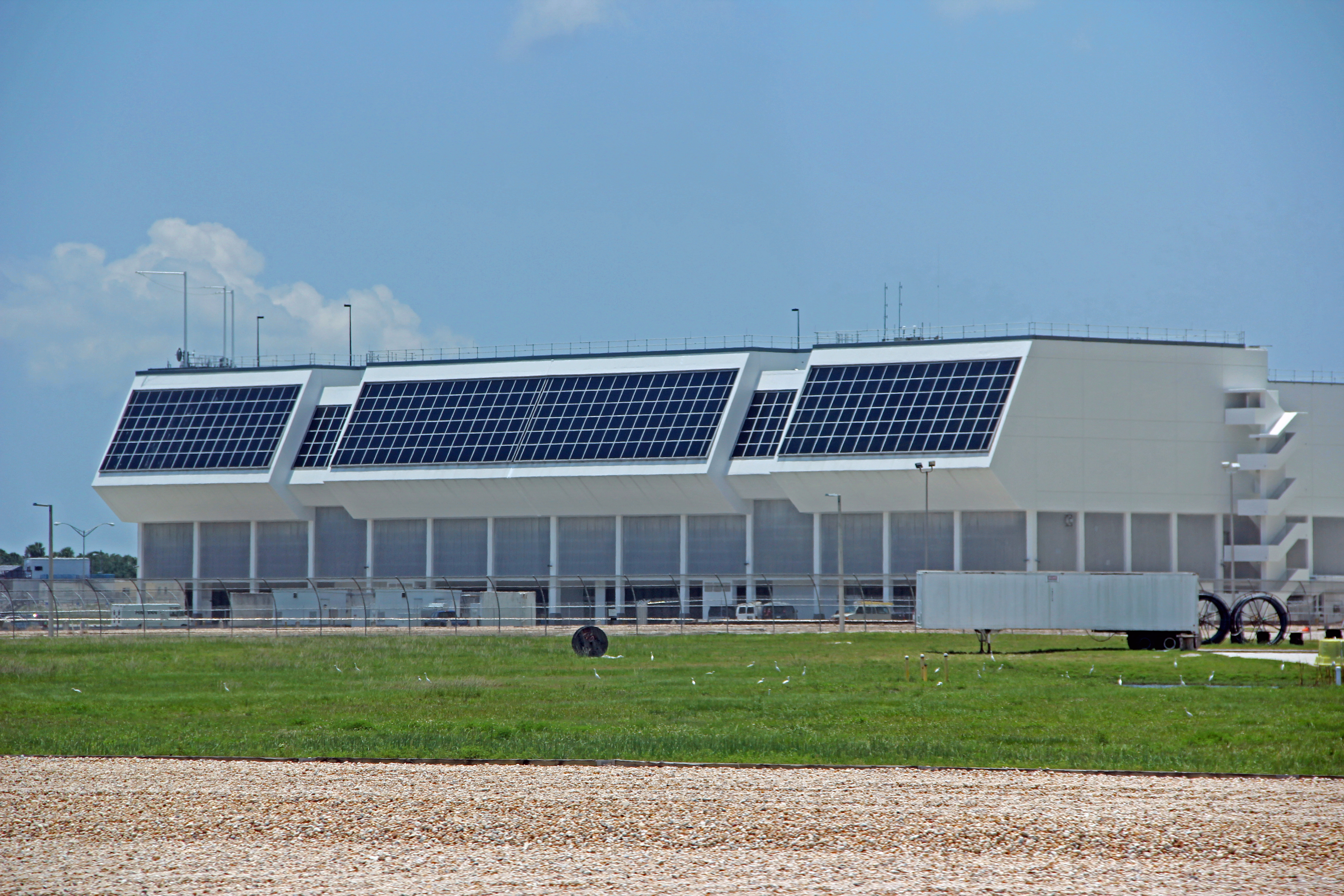 IMG_9385_edited-1.JPG